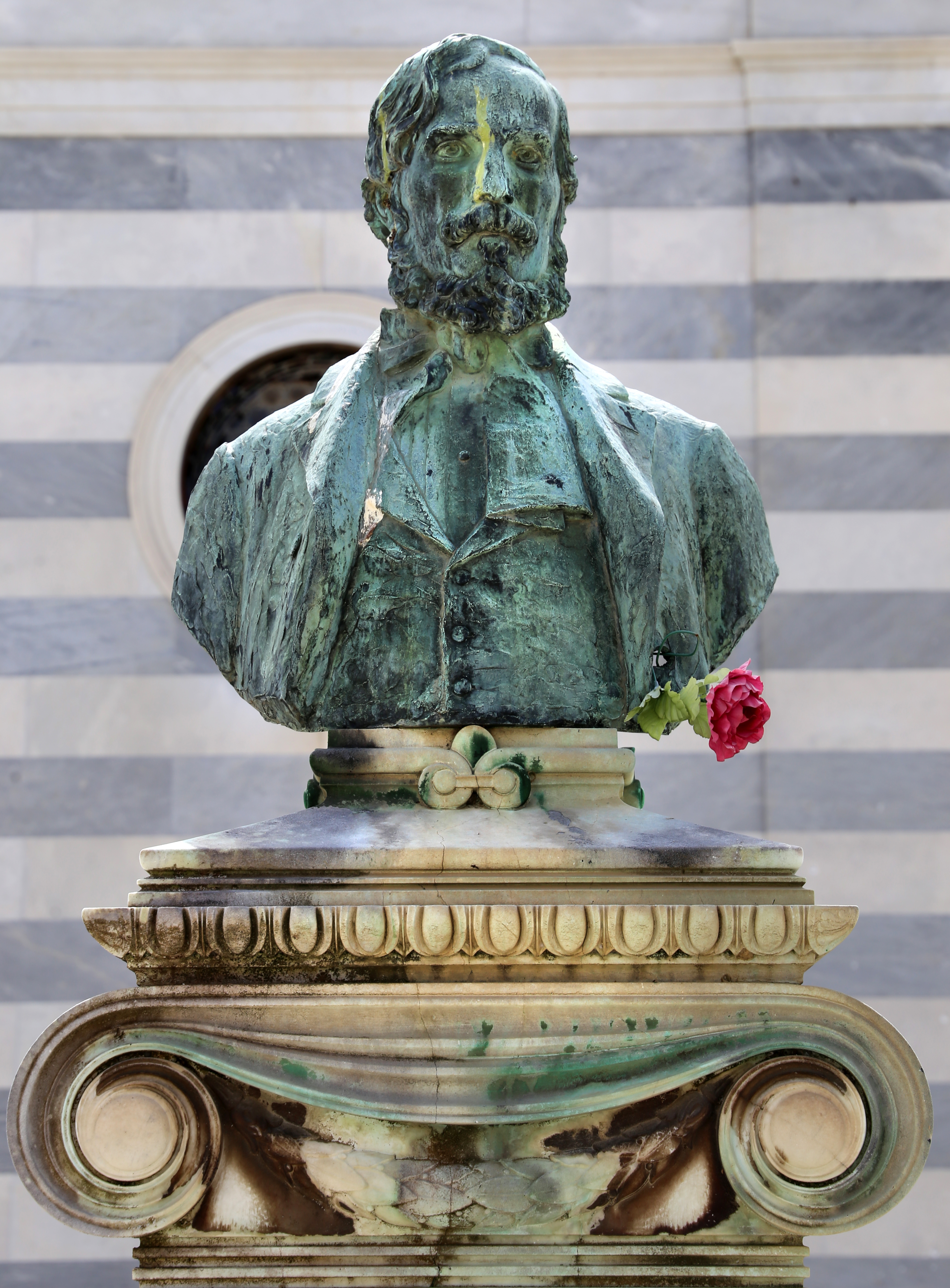 Porte Sante cemetery